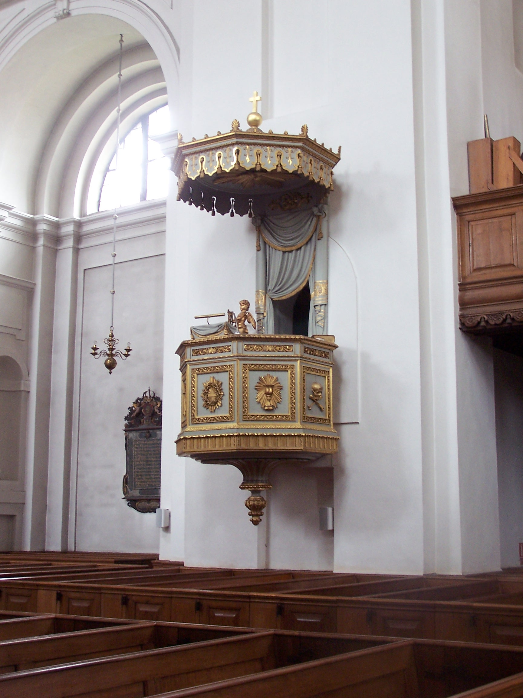 Pulpit in Fredrikskyrkan (Fredrik's church), Karlskrona